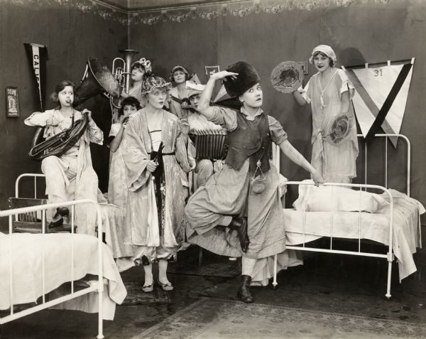 Scene still from a Mack Sennett Comedy, probably Those Athletic Girls of 1918. Louise Fazenda does a Russian dance. To the left of her is Phyllis Haver holding a curling iron. Behind them are six Sennett beauties playing musical instruments.